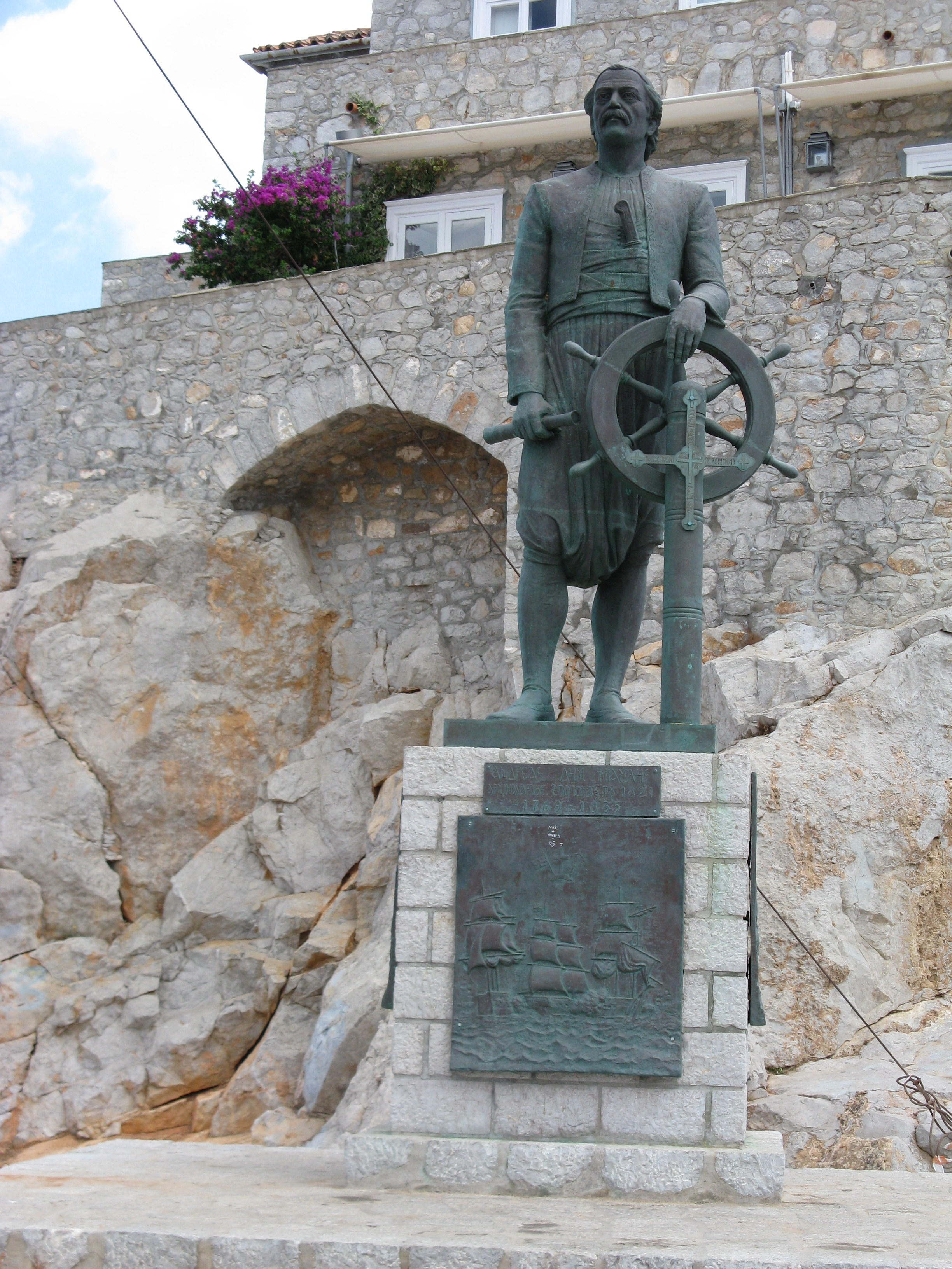 Statue of Andreas Vokos Miaoulis at Hydra island, Greece